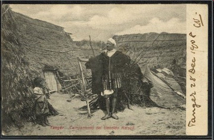 Tangier.... Campamento del Bandido Raisuli (the Camp of the Bandit Raisuli) A goumi standing guard in the camp of Mulai Ahmed er Raisuli in Tangier, Morocco.